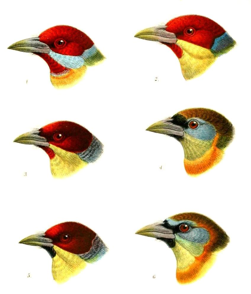 Versicoloured Barbet (top row) - Lemon-throated Barbet (center/bottom left) - Red-headed Barbet (center/bottom right)